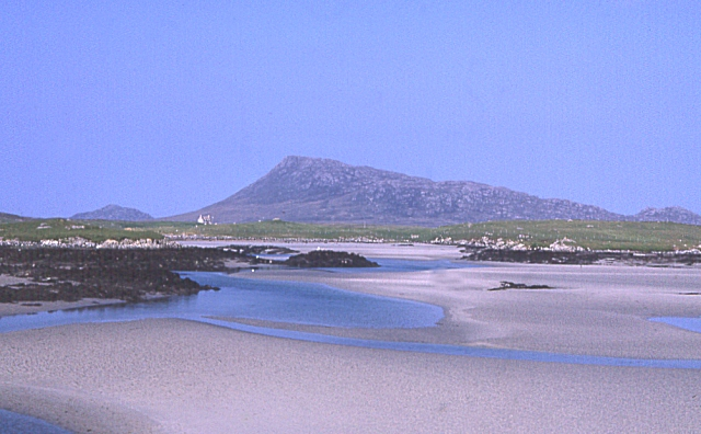 North Ford and Eaval. From the causeway linking Grimsay to Benbecula.